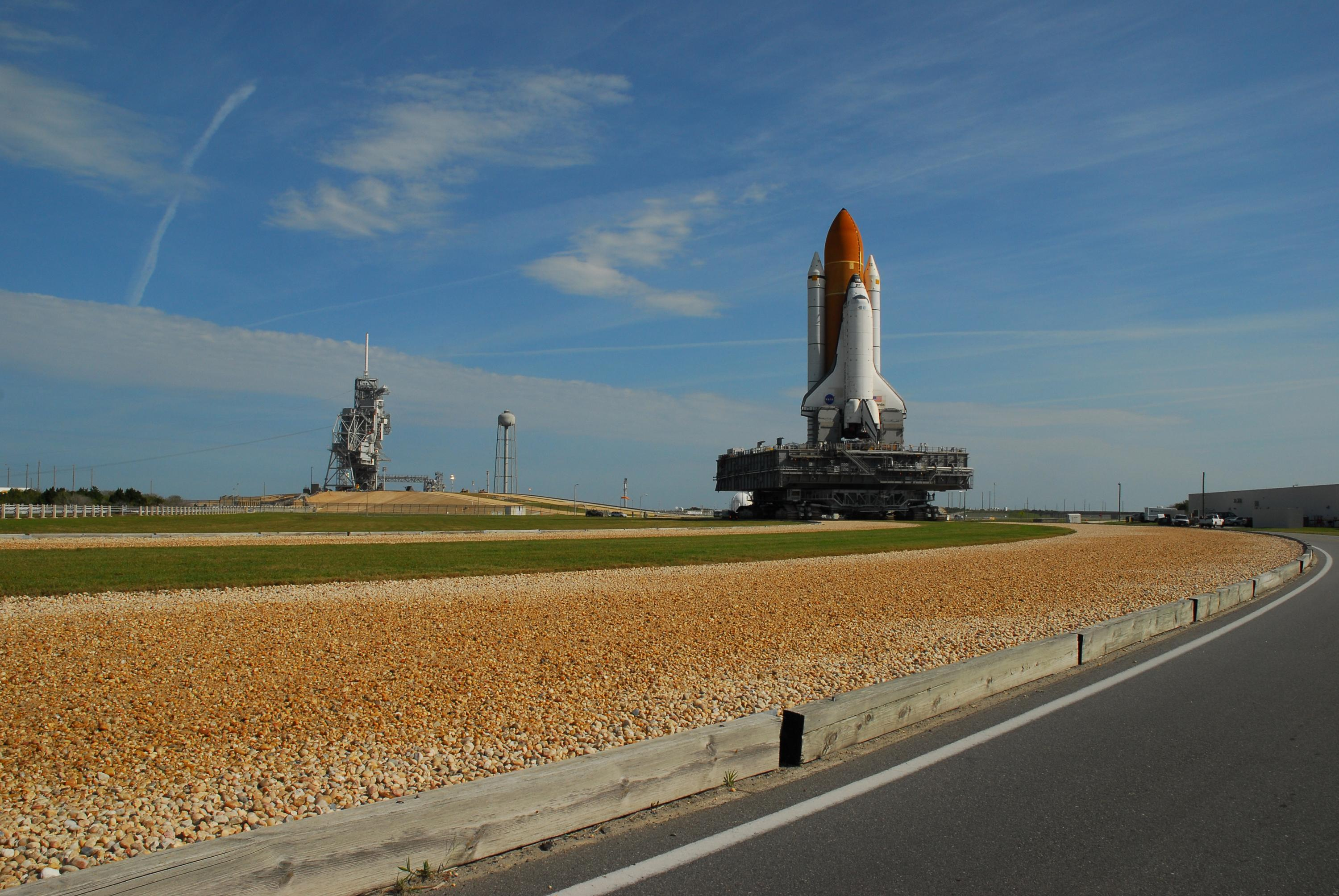 Under a nearly clear blue sky, Shuttle Atlantis maneuvers the curve on the crawlerway as it heads back to the Vehicle Assembly Building from Launch Pad 39A (in the background, left). In the VAB, the shuttle will be examined for hail damage.